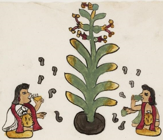 Codex Tudela f. 69r detail: two priests with tobacco gourds